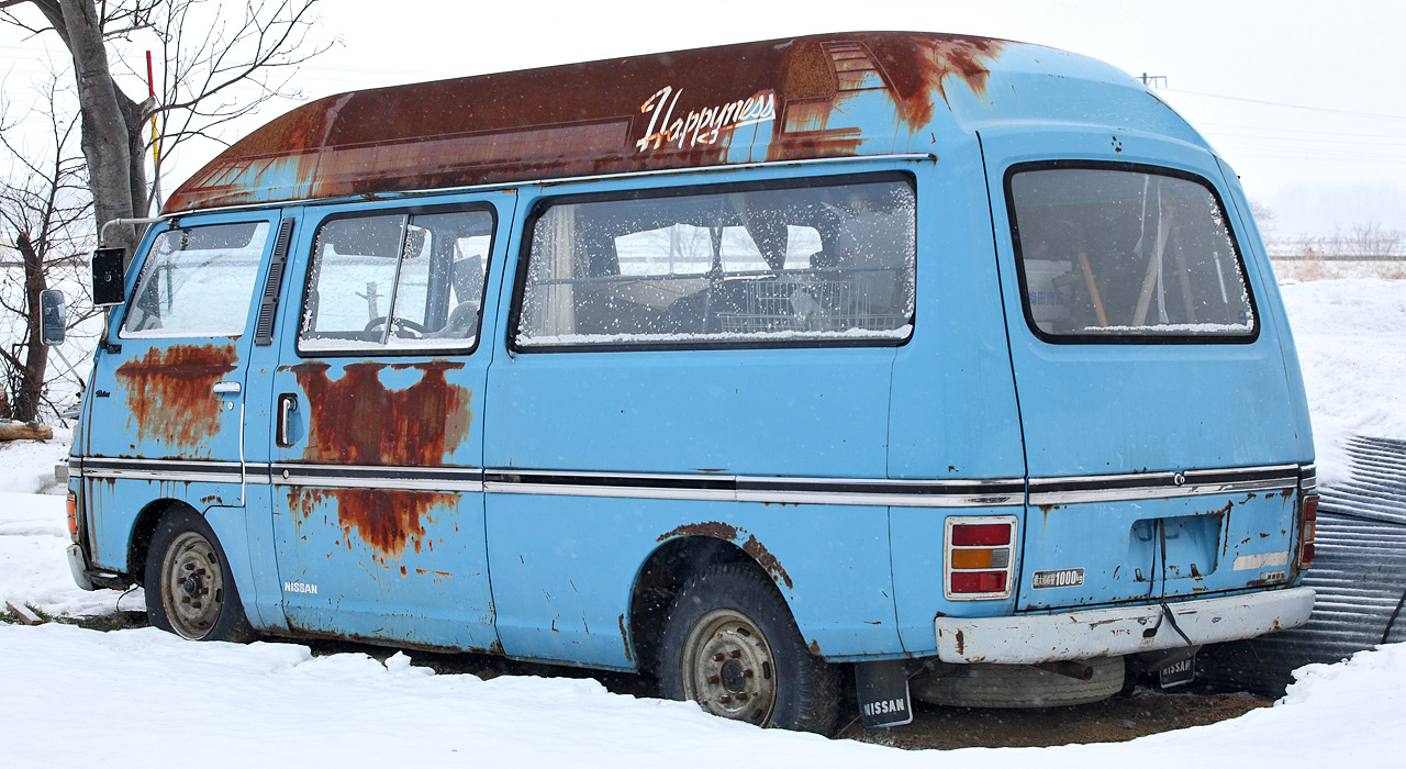 Nissan Homy Long Hiroof ( VGE20 )